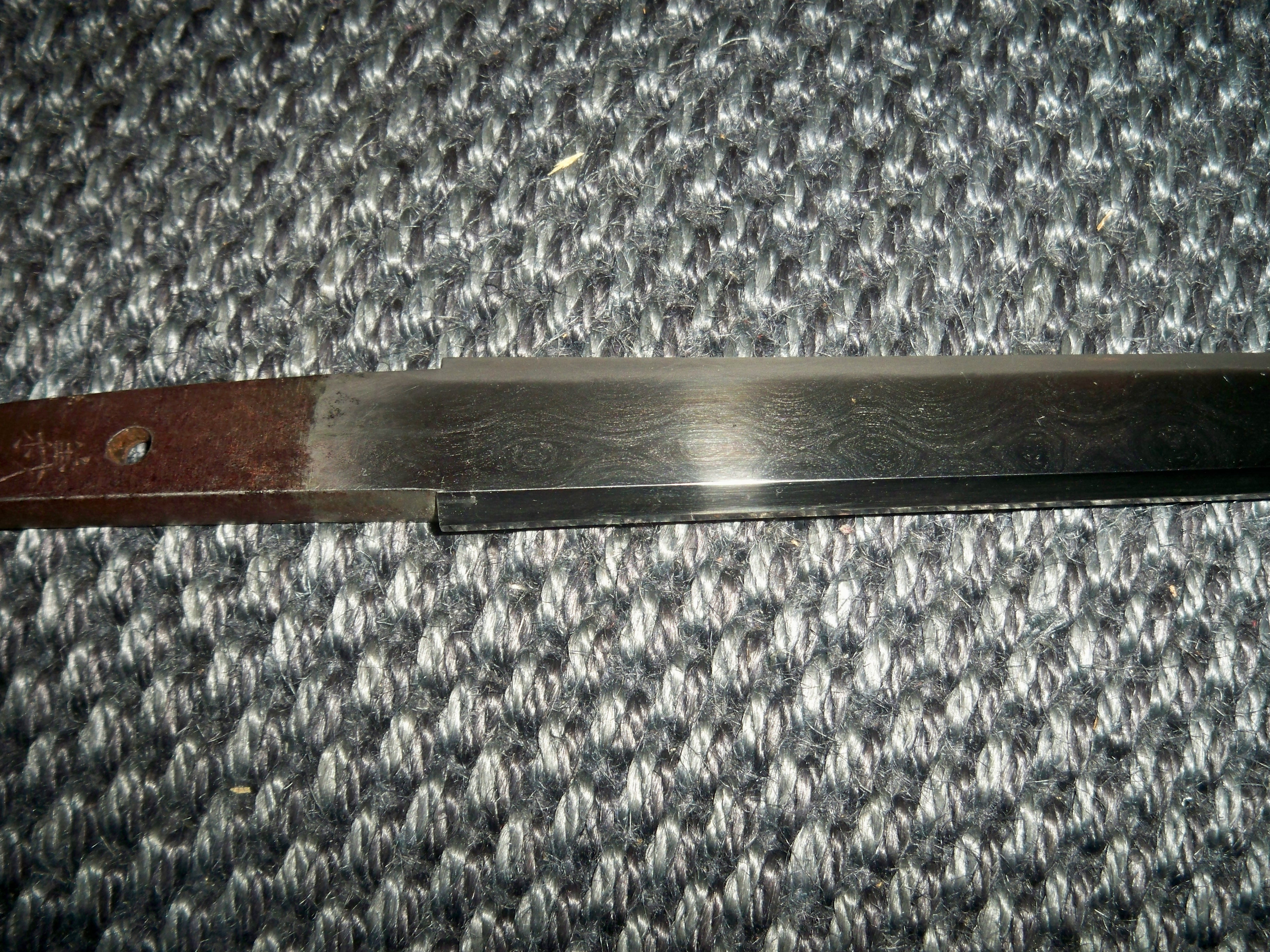 Antique Japanese Yoroi doshi tanto showing the flamboyant ayasuji type grain pattern or hada and the spine mune of the blade..